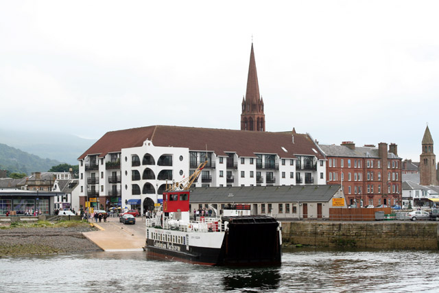 Slipway at Largs The CalMac ferry Loch Riddon is discharging cars down a ramp straight on to the slipway.